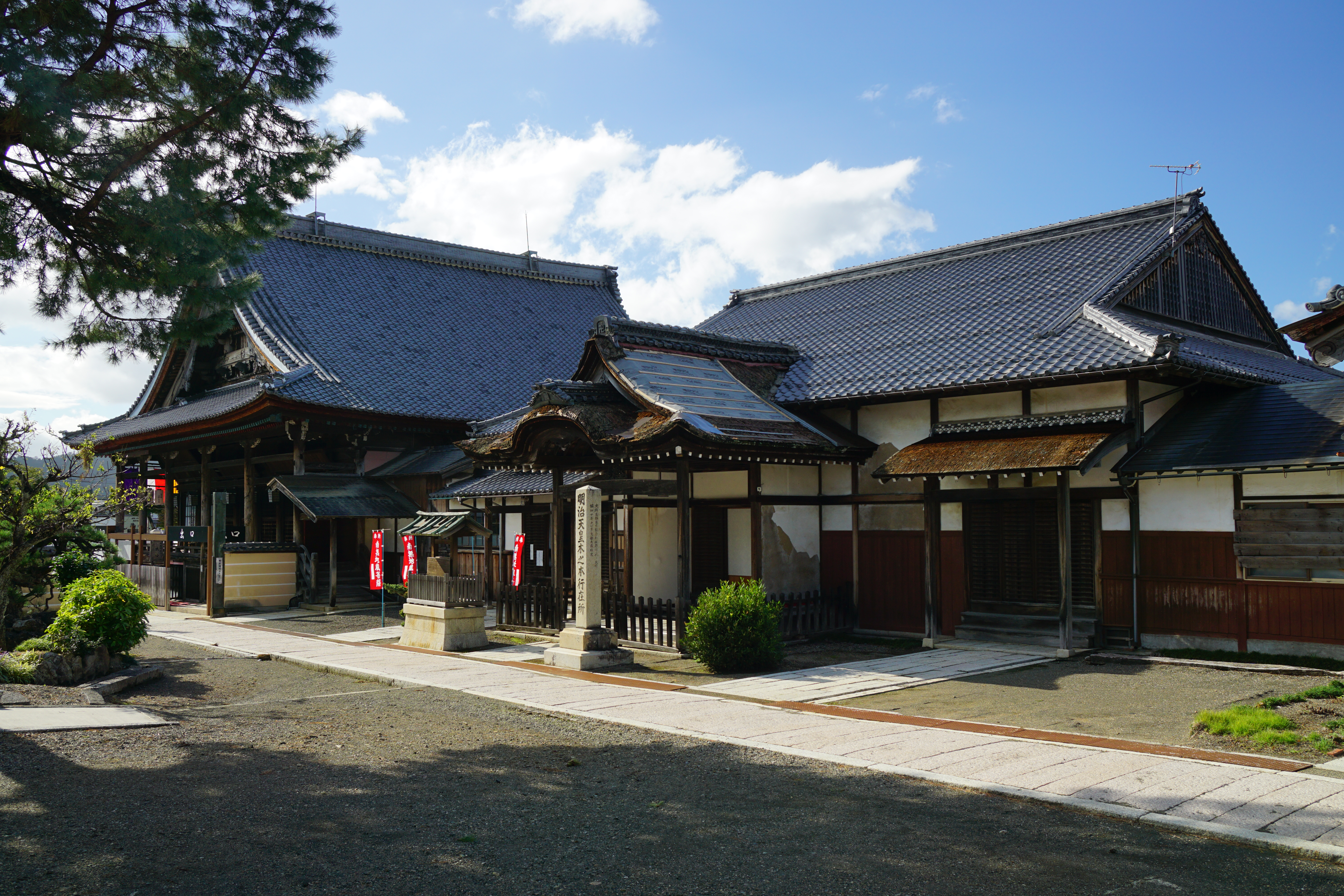 Kinomoto-Jizo-in in Nagahama, Shiga prefecture, Japan